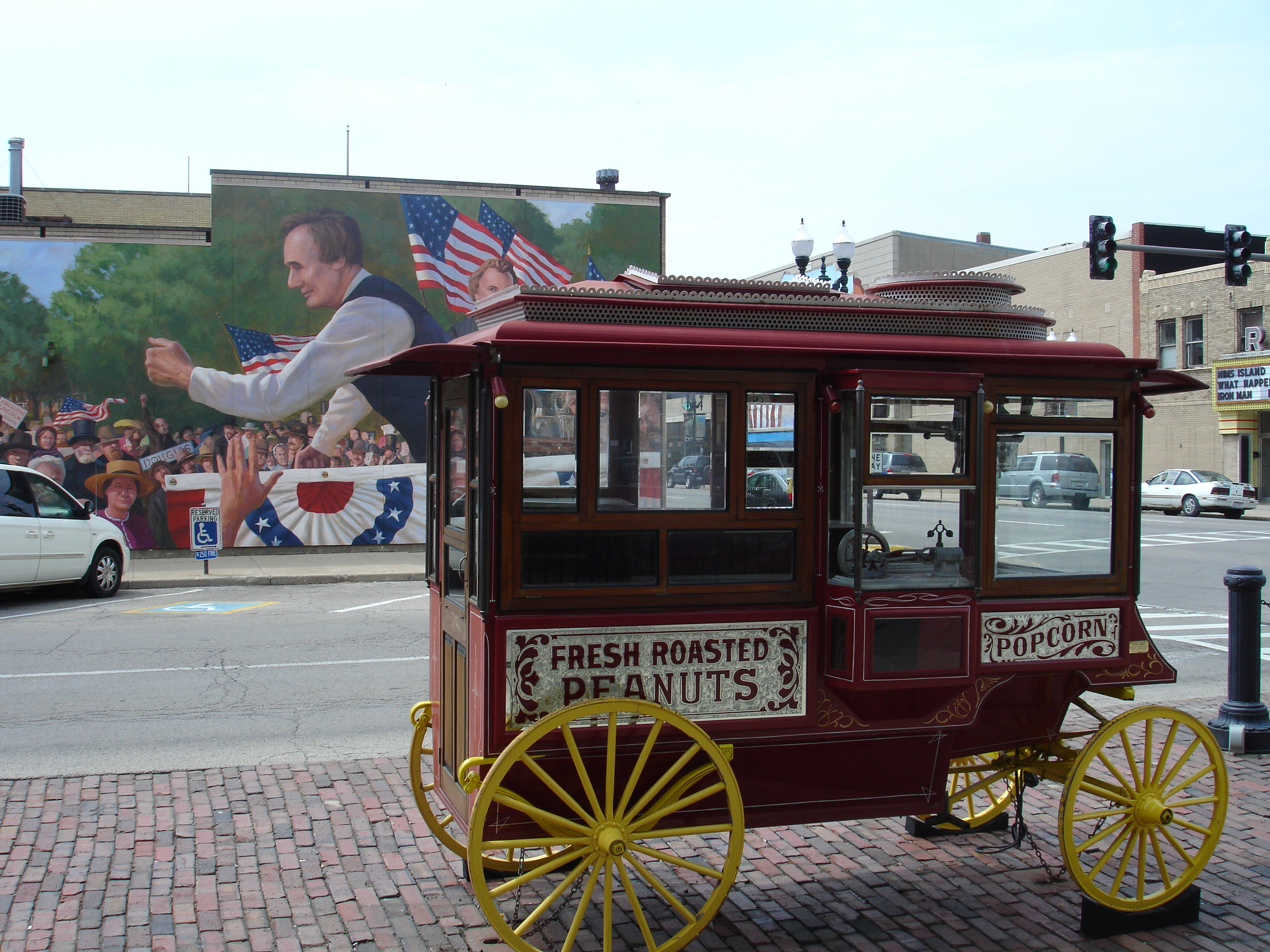 Circa 1890s Popcorn Wagon in Ottawa, Illinois, USA, part of the Washington Park Historic District, U.S. National Register of Historic Places.